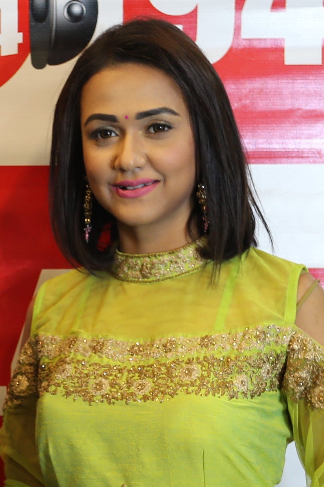 Airin Sultana is a Bangladeshi ramp model and actress